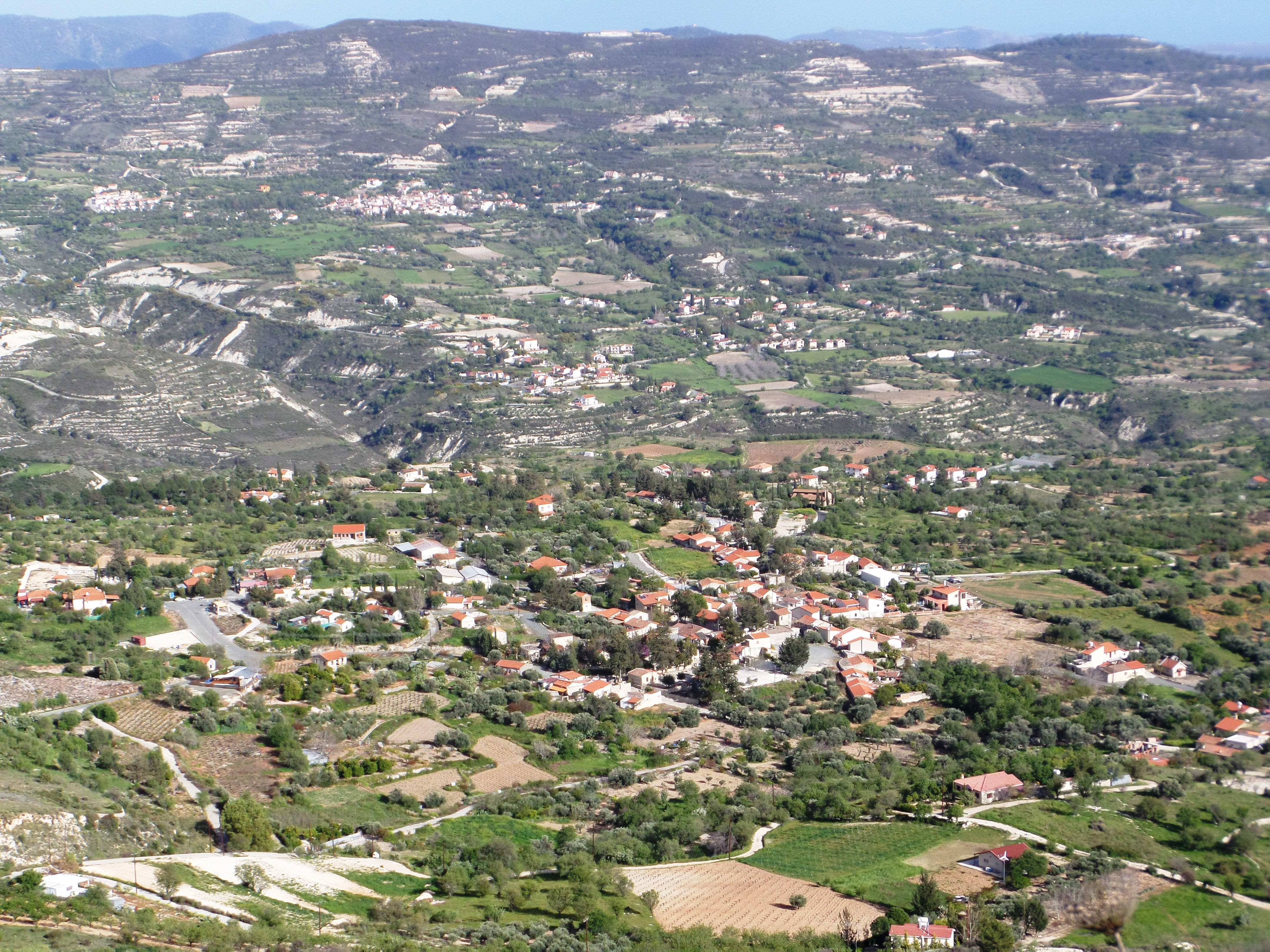 View of Silikou.